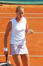 Elena Bovina at J&S Cup 2002 Warsaw